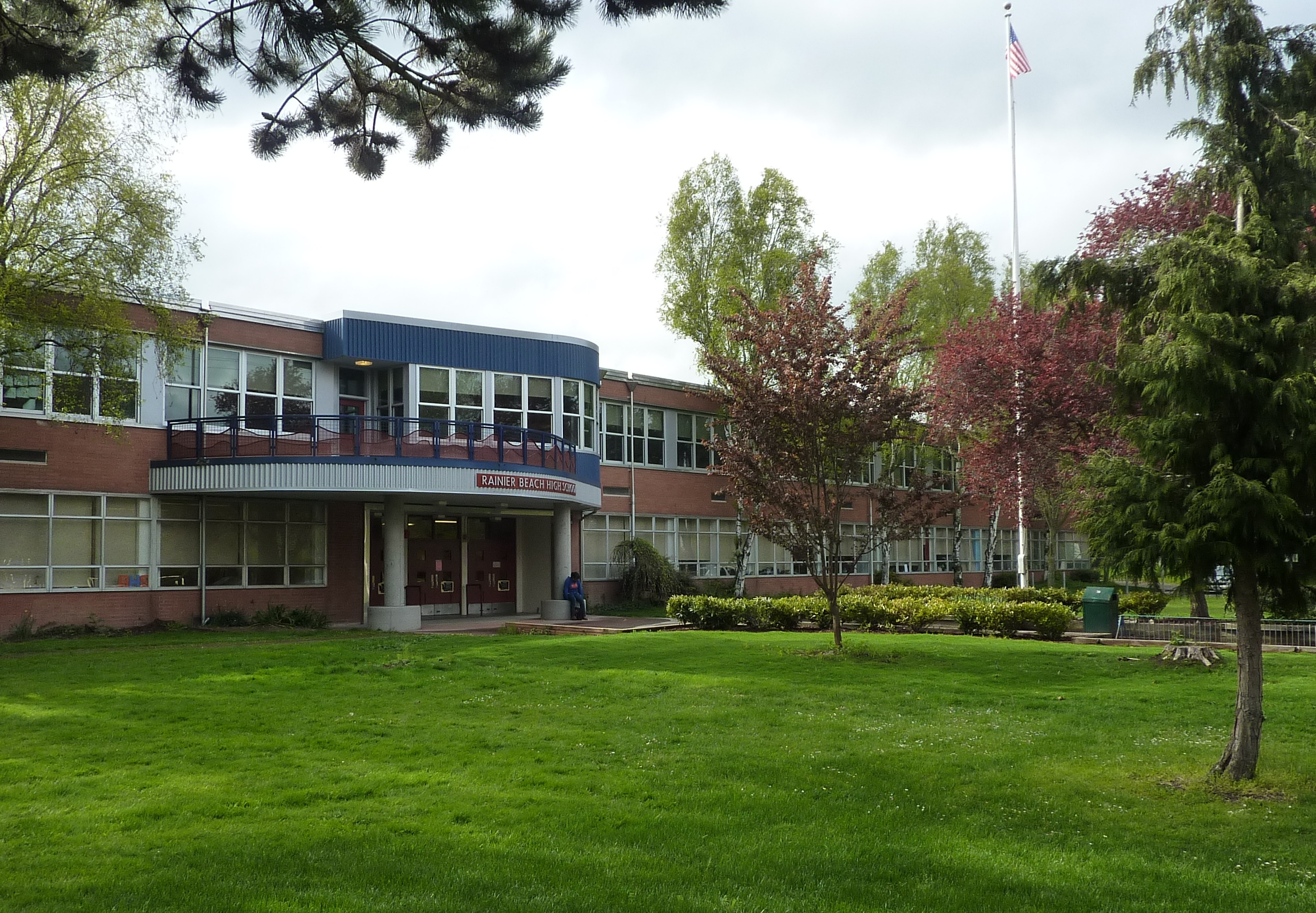 East facade facing Beer Sheva Park and Lake Washington